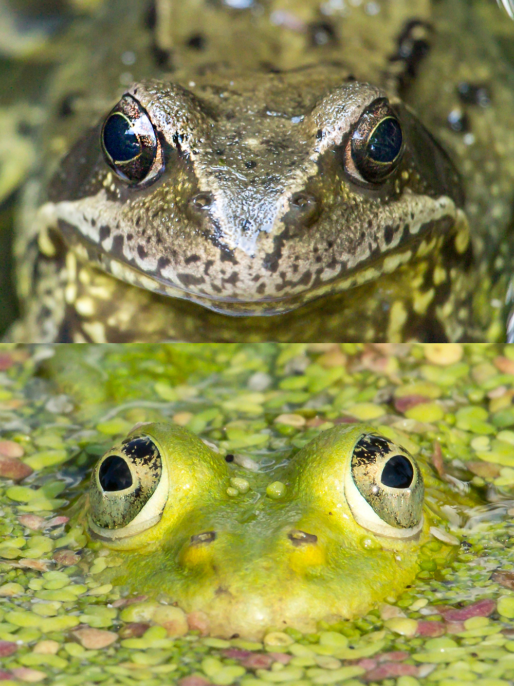 Frontal views of a so-called brown frog (genus Rana) and a green frog (genus Pelophylax), more precisely: a female Common frog (Rana temporaria, above) and a male Edible frog (Pelophylax esculentus, below). Note the different orientation of the eyes: In the all-year more aquatic living green frog, the (larger) eyes are slightly more upwards than in the predominantly terrestrial brown frog.